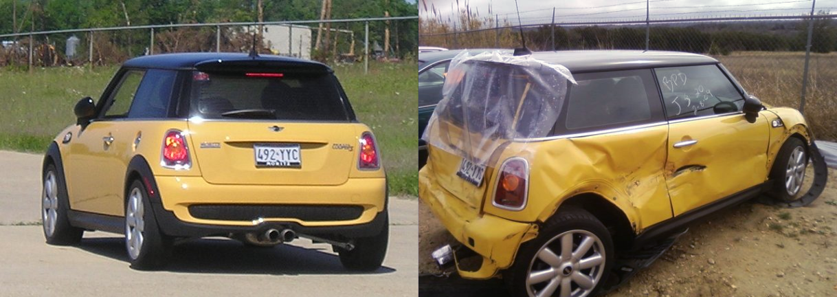 A 2007 MINI Cooper'S car shown immediately before - and soon after - a severe car crash. At: Lat/Long 31.03669,-97.470881